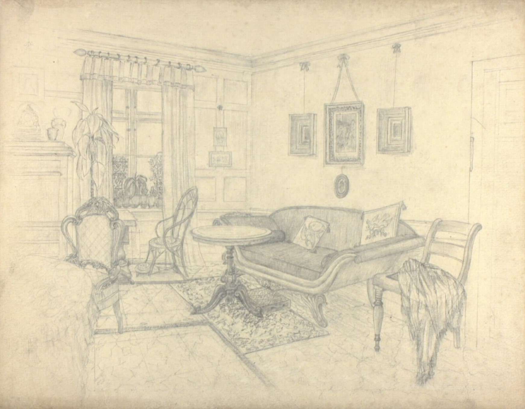 The professor's residence at Ny Vestergade 11 in Copenhagen, Denmark.